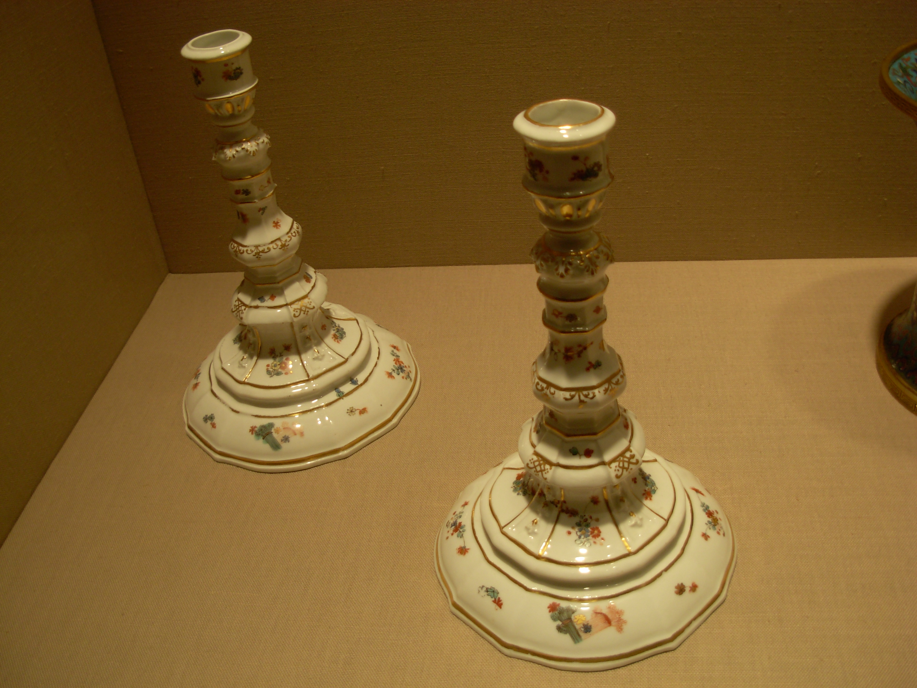 "Kakiemon Style" German candlesticks, c. 1735-1740, from Meissen Porcelain Manufactory; Kerzenhalter